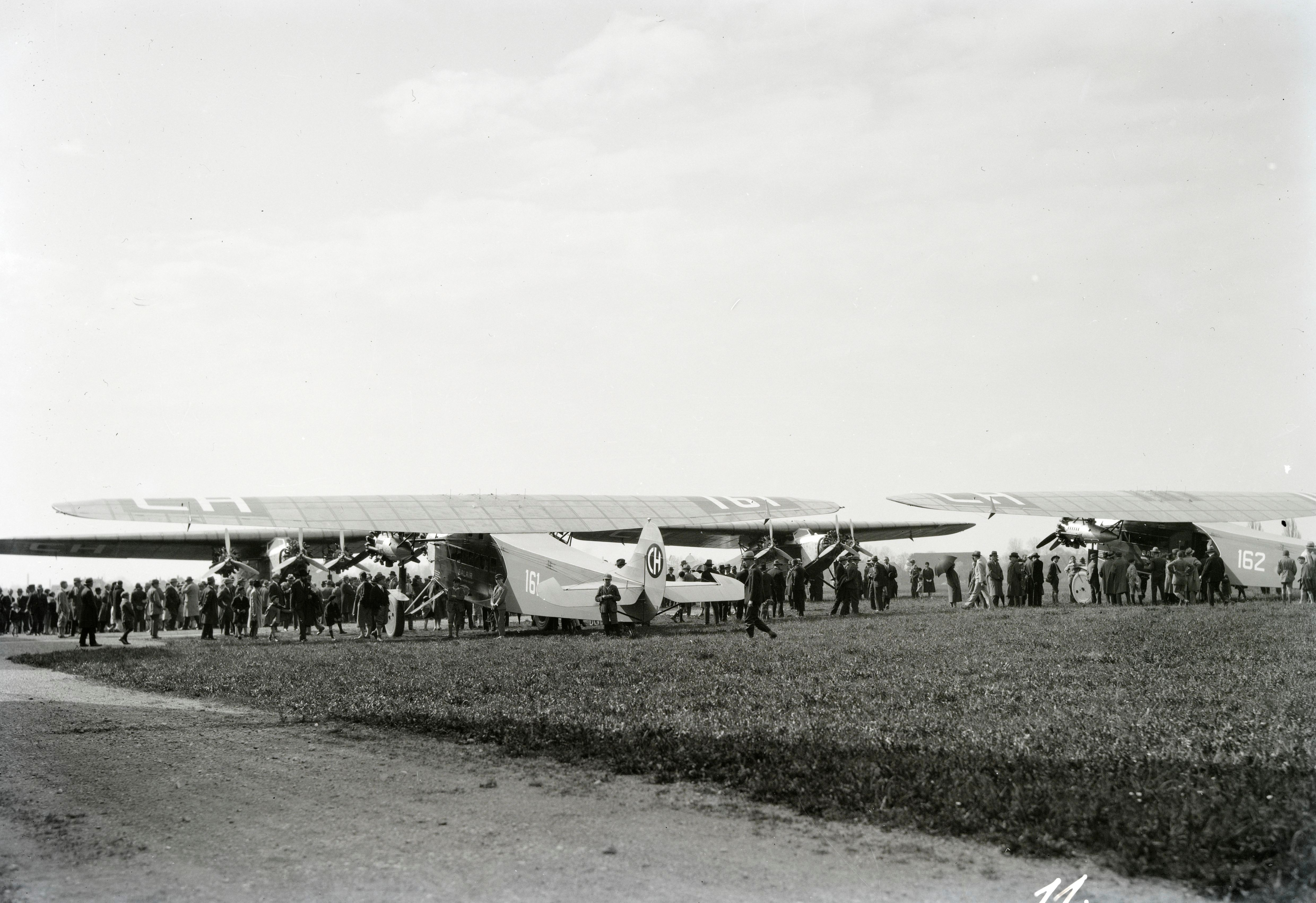 Four Fokker F.VIIb-3m aircraft of Balair, presumably taken at Basel-Birsfelden